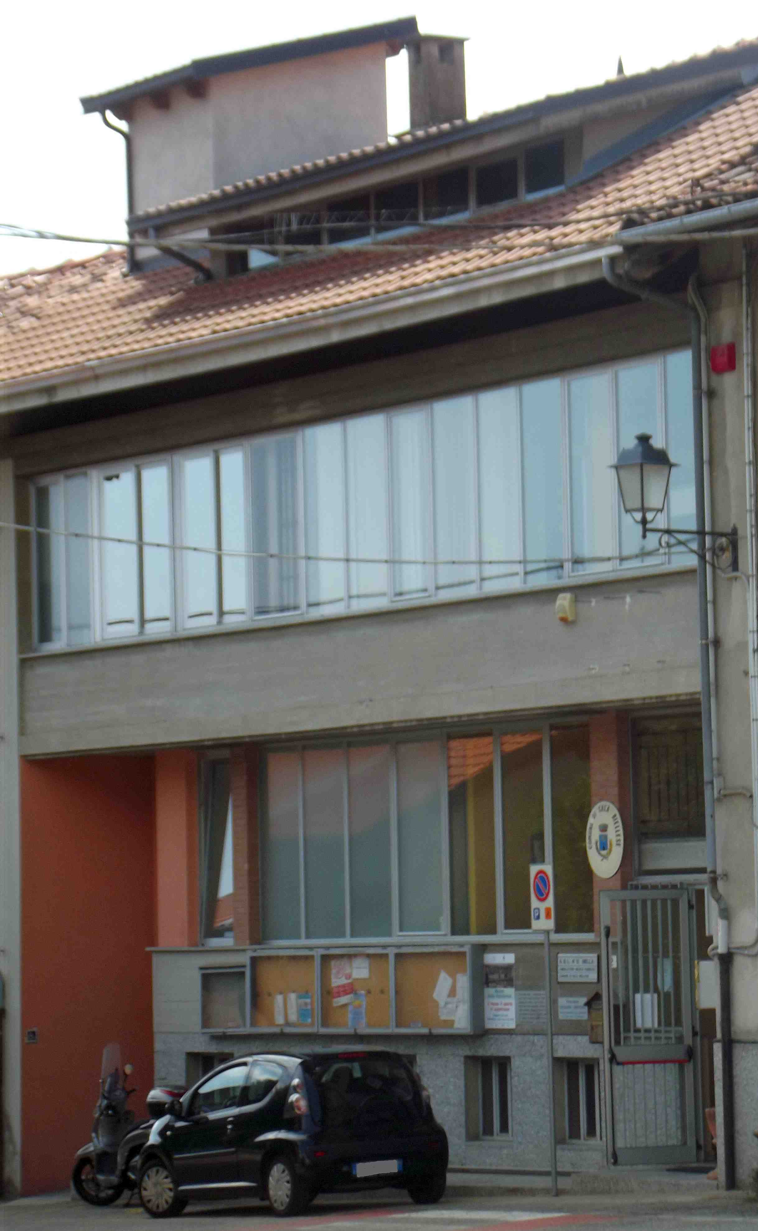 Sala Biellese (BI, Italy): town hall